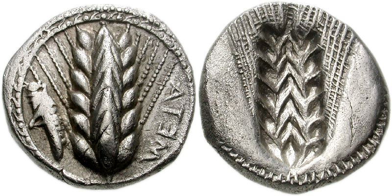 LUCANIA, Metapontion. Circa 470-440 BC. AR Nomos (20mm, 8.24 g, 12h). ATEM retrograde on right, ear of barley with six grains; locust to left Incuse ear of barley with six grains. Noe 259 (same dies); Gorini -; SNG ANS 257 (same dies); SNG Copenhagen -; HN Italy 1486; SNG Fitzwilliam 468 (same dies).